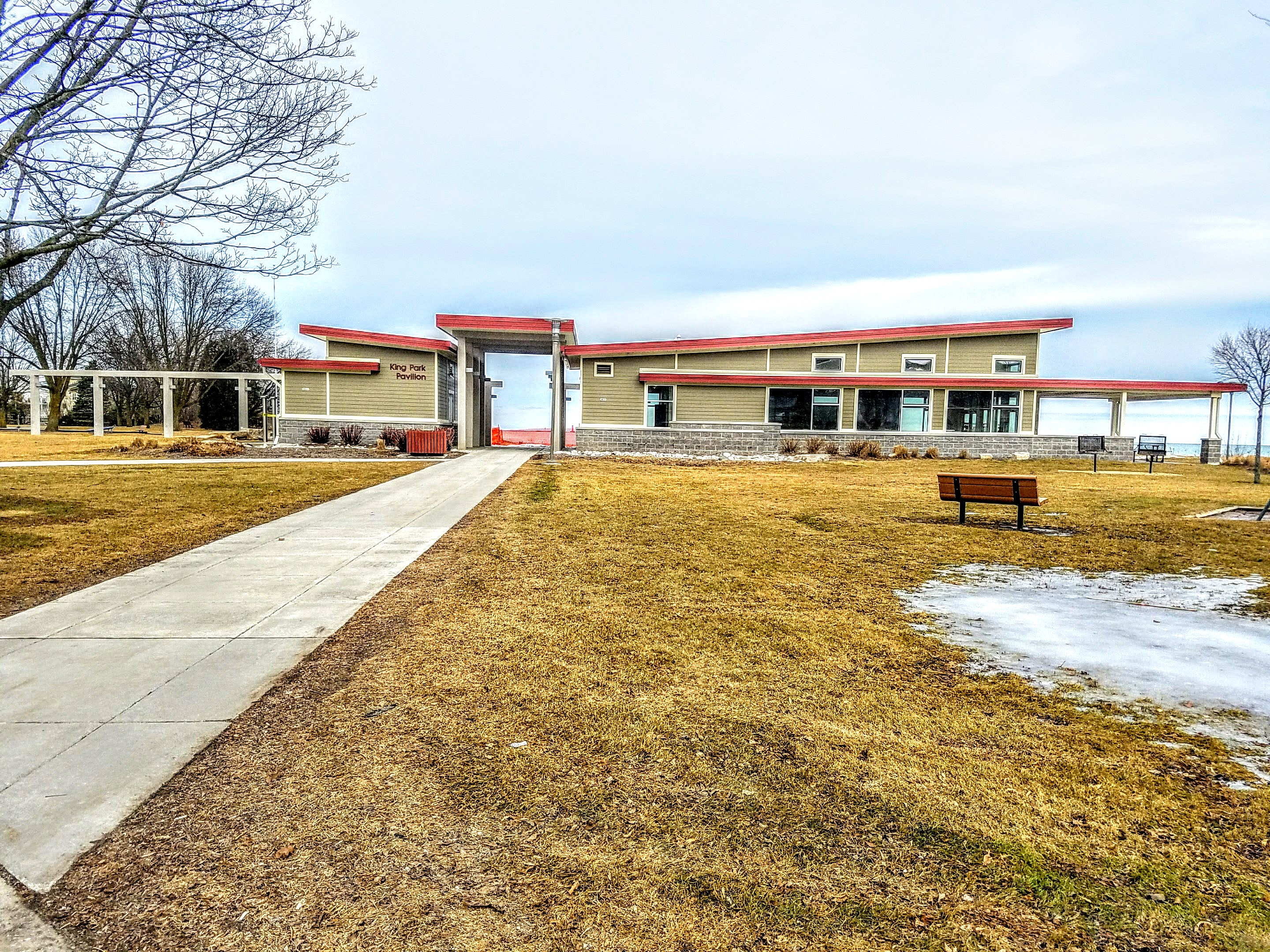 Park Pavilion